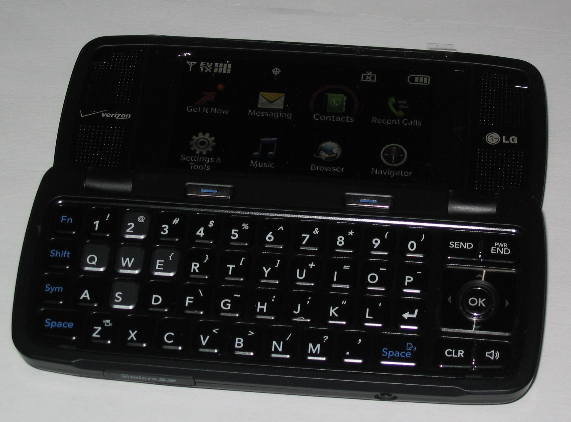 Image of an LG Voyager VX10000 that I took with my digital camera. The image illustrates the internal portion of this phone.